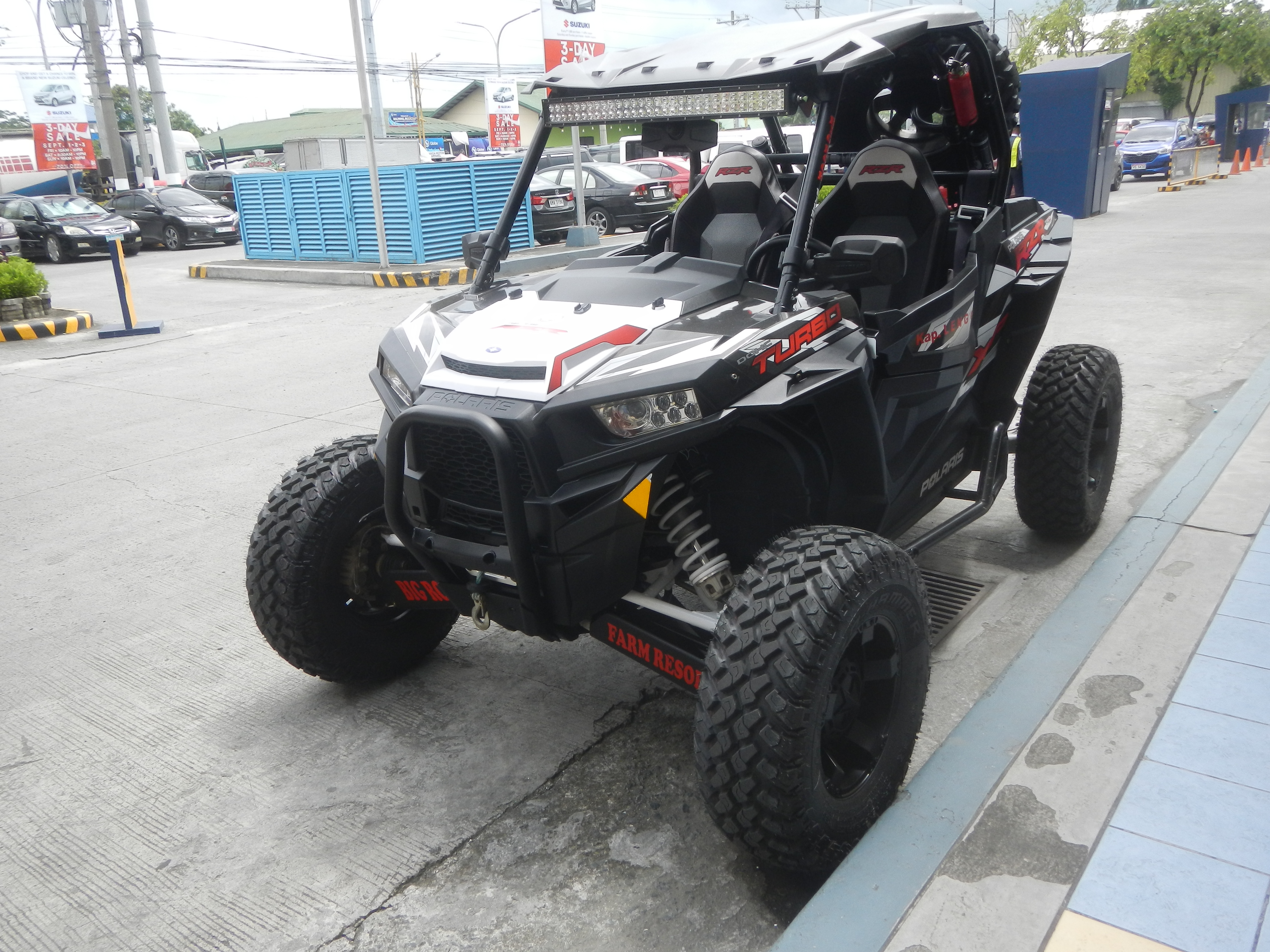 Polaris RZR Polaris RZR ProStar Engines XPTurbo DOHC Electronic Power Steering Team Big Rock ProStar Engines in Barangay Pagala 14°58'14"N 120°53'26"E Baliuag, Bulacan, Bulacan (Note: Judge Florentino Floro, the owner, to repeat, Donor Florentino Floro of all these photos hereby donate gratuitously, freely and unconditionally all these photos to and for Wikimedia Commons, exclusively, for public use of the public domain, and again without any condition whatsoever).